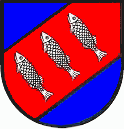 Coat of Arms of Wittorf